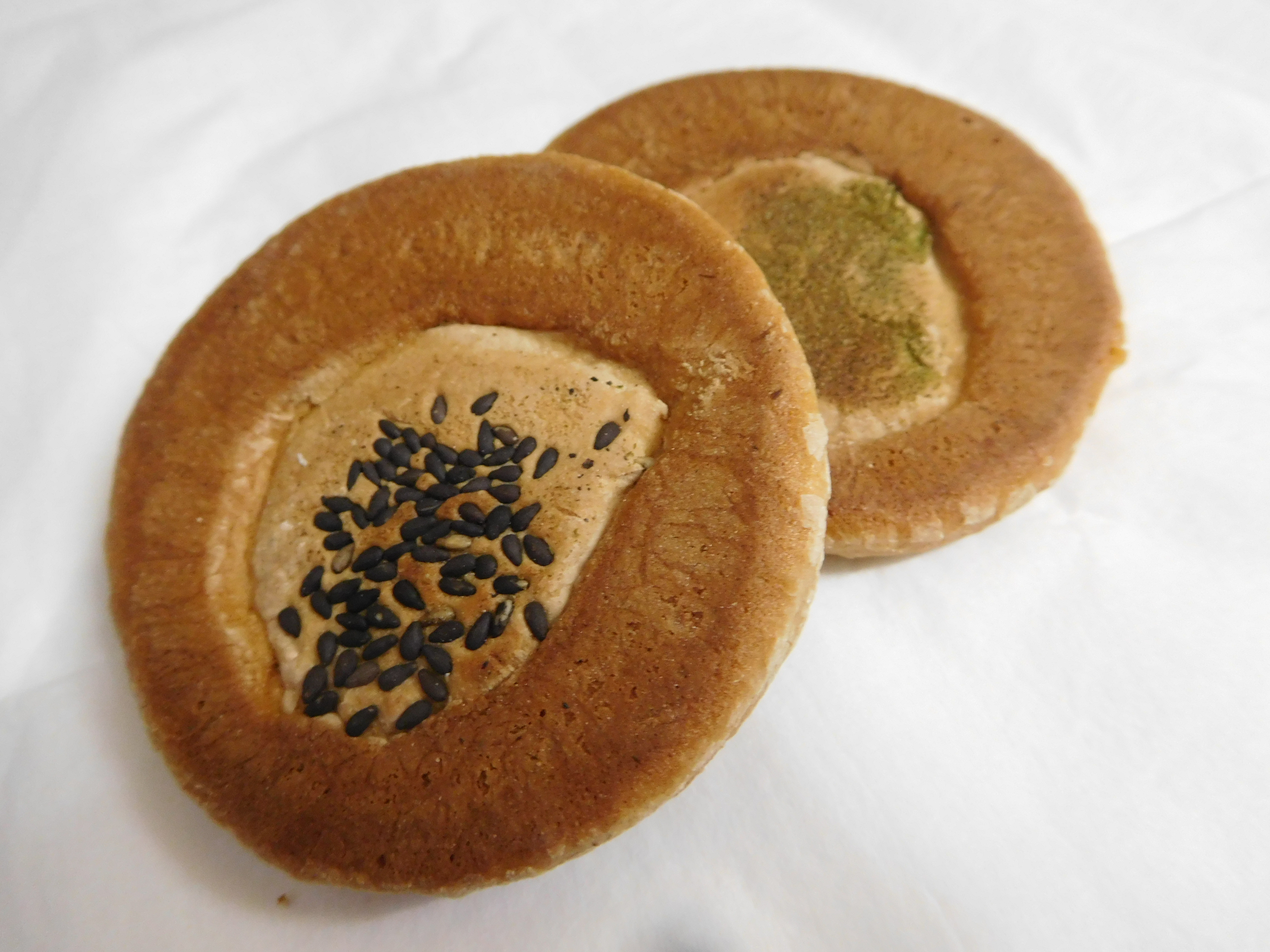 These are Katayaki, hard senbei for ninja. These are made by Kamata Confectionery in Iga, Mie, Japan.